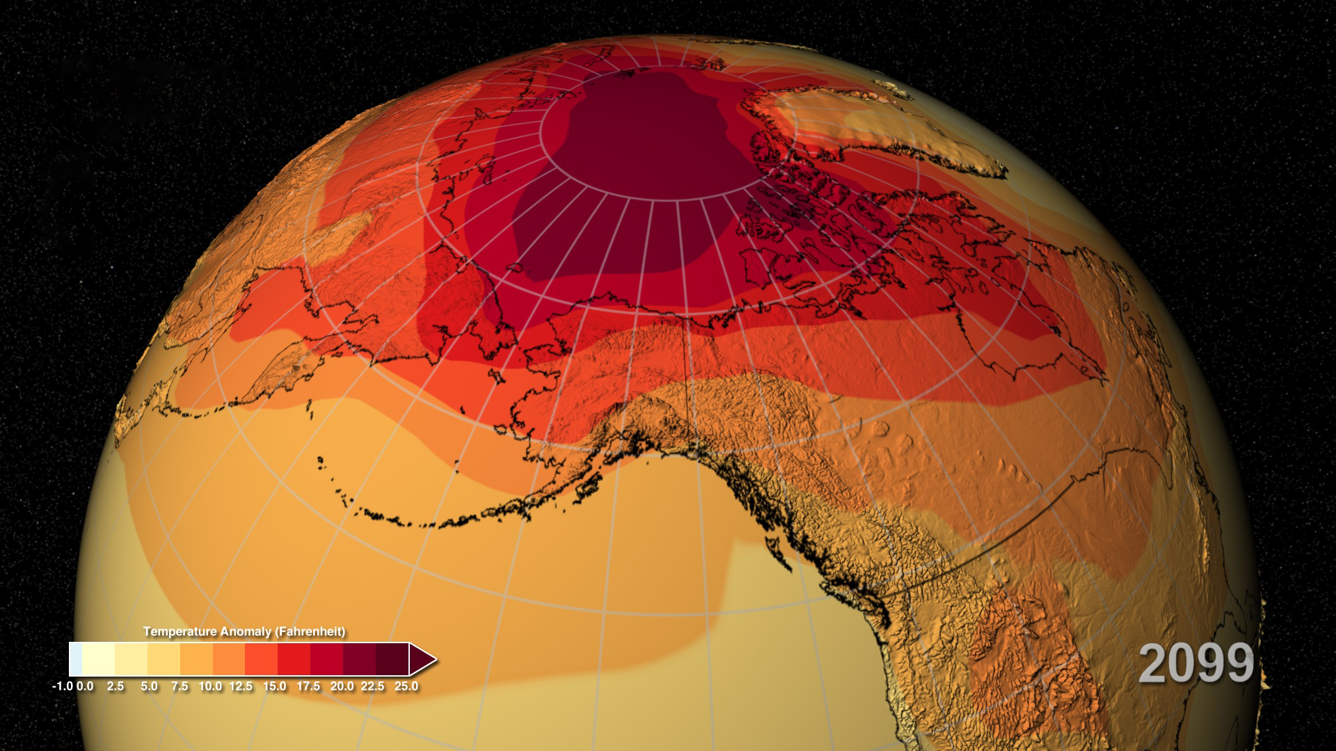 "A new NASA study shows Earth's climate likely will continue to warm during this century on track with previous estimates, despite the recent slowdown in the rate of global warming..."